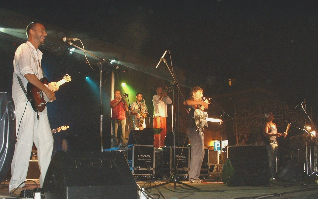 The Qbeta in concert at Solarino, Syracuse, Italy